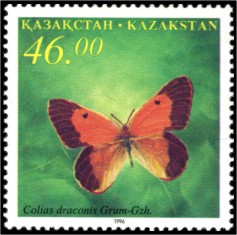 Stamp of Kazakhstan , Colias wiskotti dracomis Grum-Grshimailo, 1891 (Lepidoptera: Pieridae)